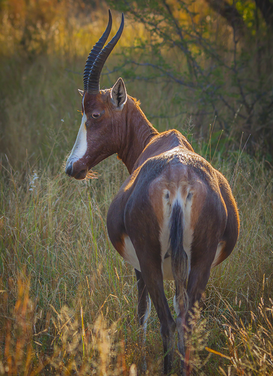 Blesbok or Blesbuck (Damaliscus pygargus phillipsi) is an antelope endemic to South Africa. The Blesbok is a close relative of the Bontebok (Damaliscus pygargus dorcas) and can interbreed with it, known as the Bontebles or Baster blesbok. This interbreeding is however frowned upon by Nature Conservation in South Africa.